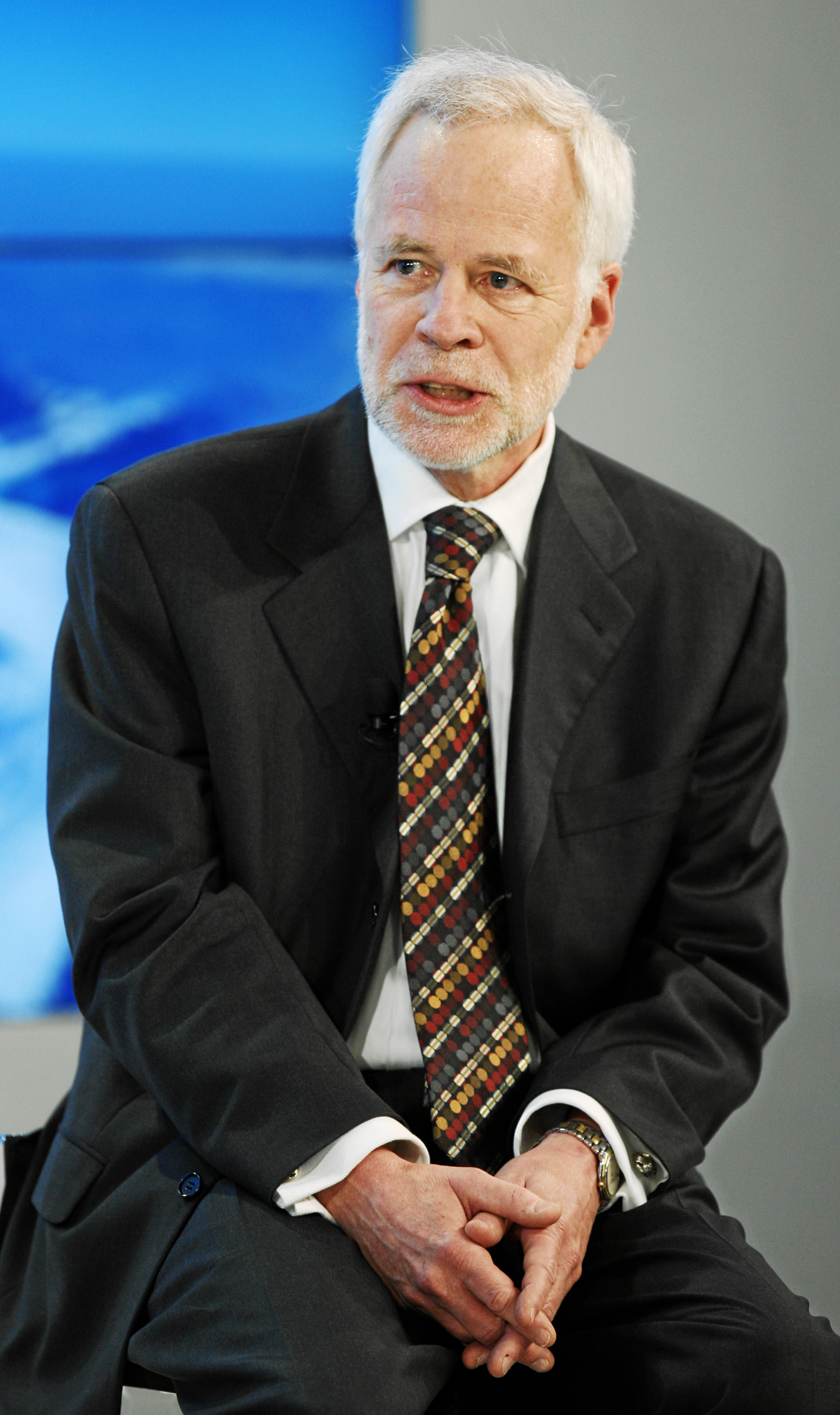 DAVOS/SWITZERLAND, 28JAN12 - Barry Eichengreen, Professor of Economics and Political Science, University of California, Berkeley, USA is captured during the session 'How Immune Is India?' at the Annual Meeting 2012 of the World Economic Forum at the congress centre in Davos, Switzerland, January 28, 2012.. . Copyright by World Economic Forum. by Sebastian Derungs